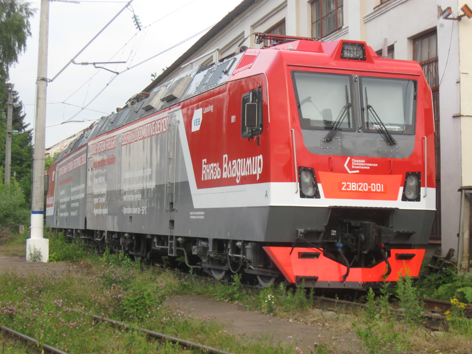 2EV120-001 electric locomotive (experimental unit) at reserve tracks of railway test circuit in Shcherbinka